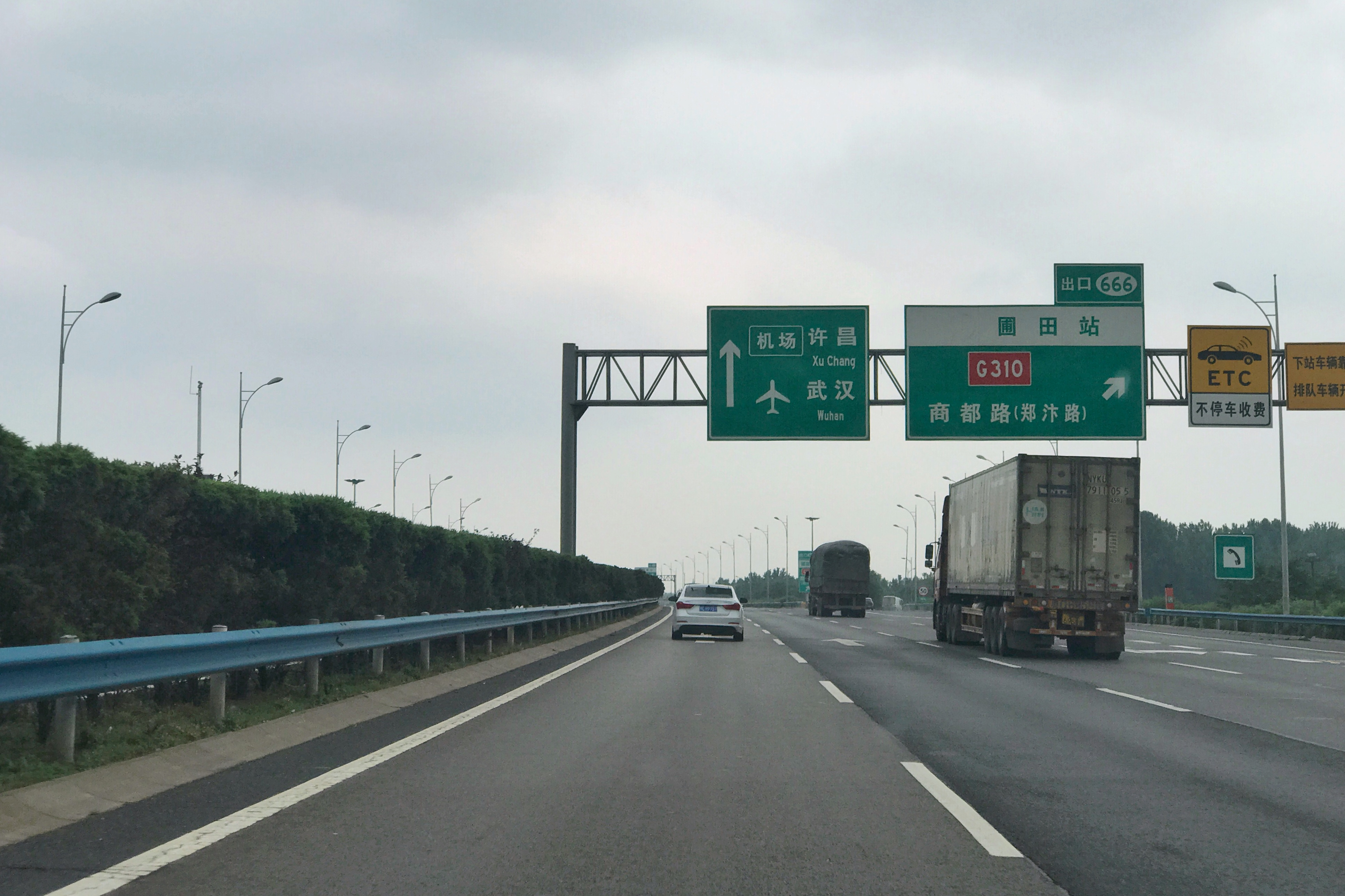 G4 Expressway Zhengzhou section near Exit 666 (Putian exit)